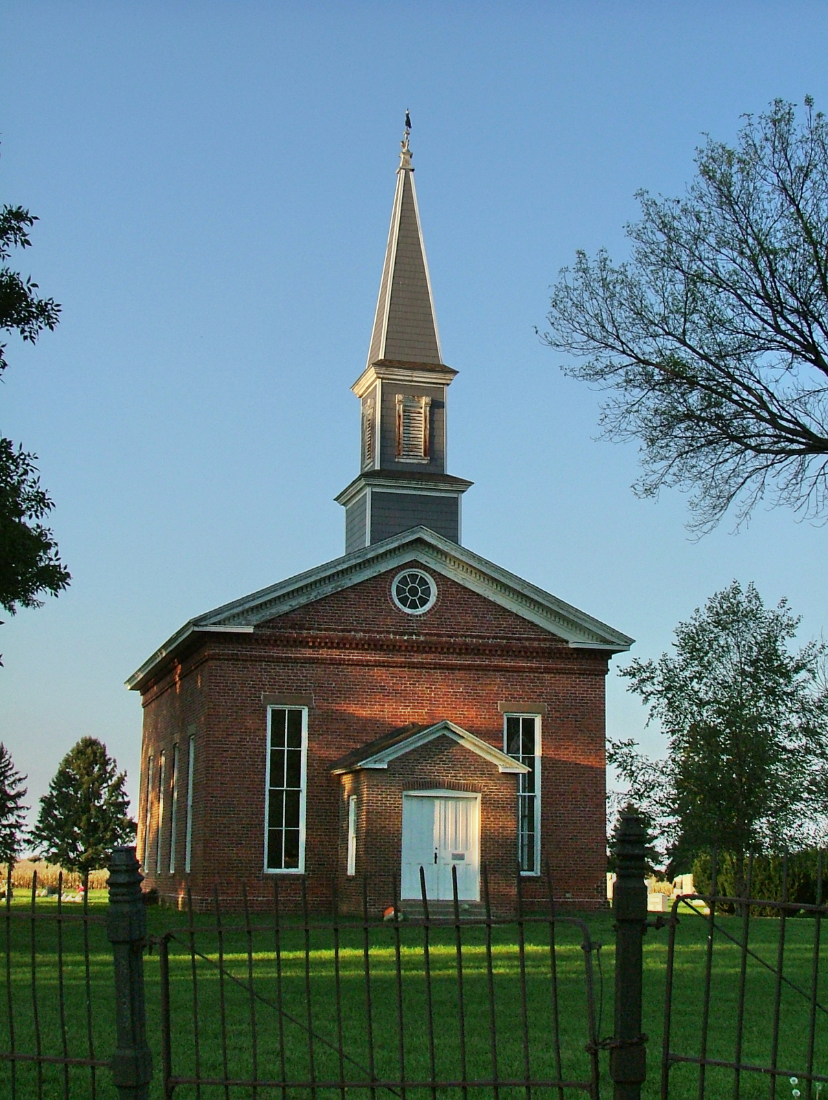 Mann's Chapel in Vermilion County, Illinois, dating from 1857